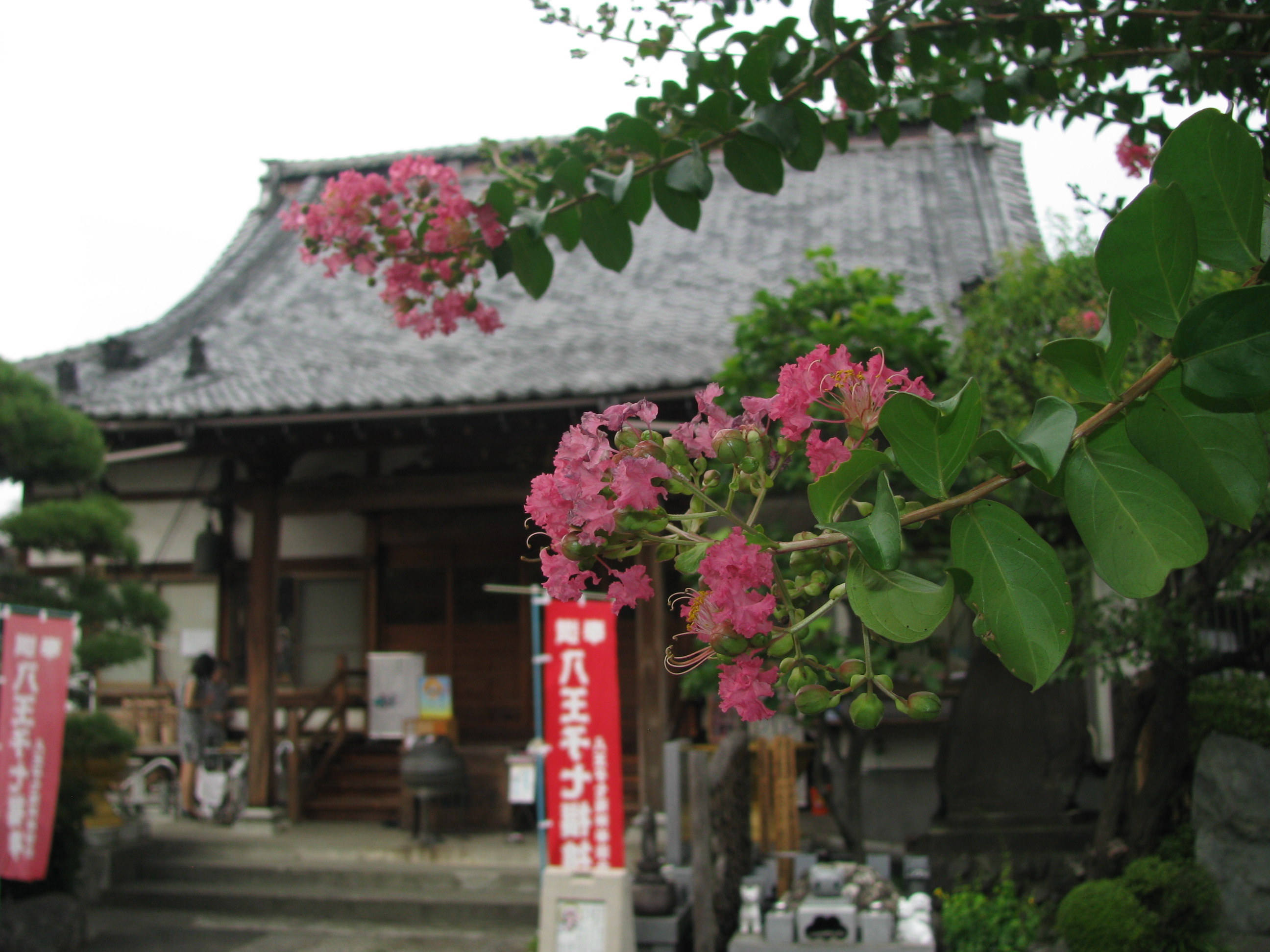 The Sarusuberi in the Ryōhō-ji. This Place is hiyoshi-machi in Hachiōji, Tokyo, Japan.